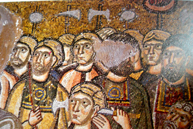 Arrest of Jesus (mosaic in Nea Moni, detail)